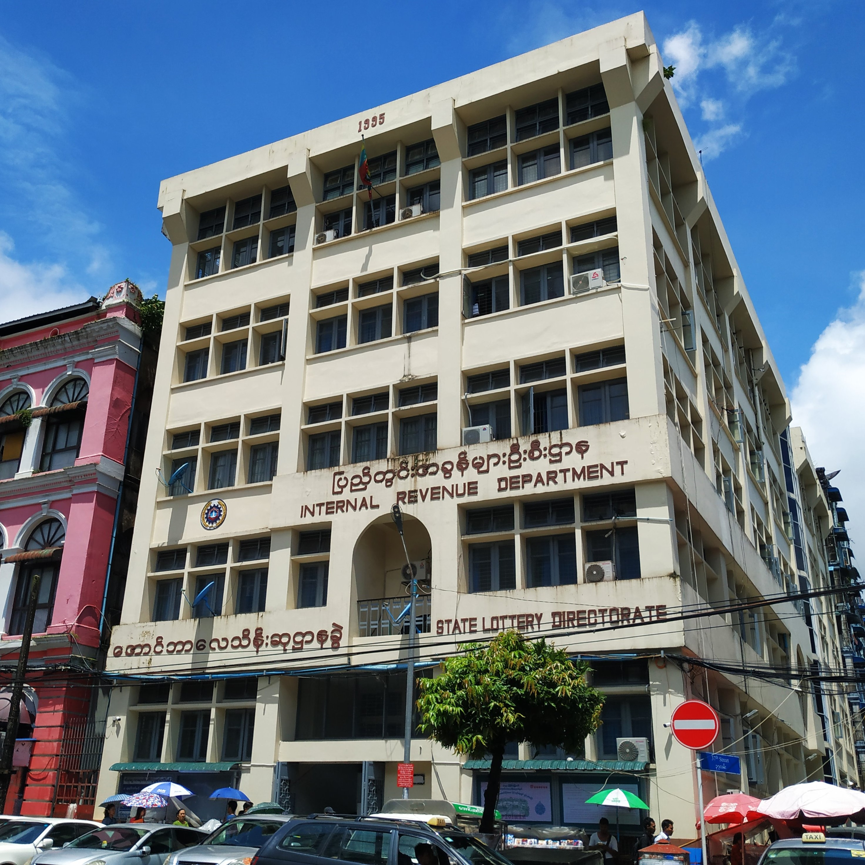 Yangon State Lottery Directorate (Aung Bar Lae Lottery), Internal Revenue Department, Corner of Mahar Bandula Road and 37 Street, Yangon မြန်မာဘာသာ: အောင်ဘာလေသိန်းဆုဌာနခွဲ၊ ပြည်တွင်းအခွန်များဦးစီးဌာန၊ မဟာဗန္ဓုလလမ်းနှင့် ၃၇လမ်း ထောင့်၊ ရန်ကုန်